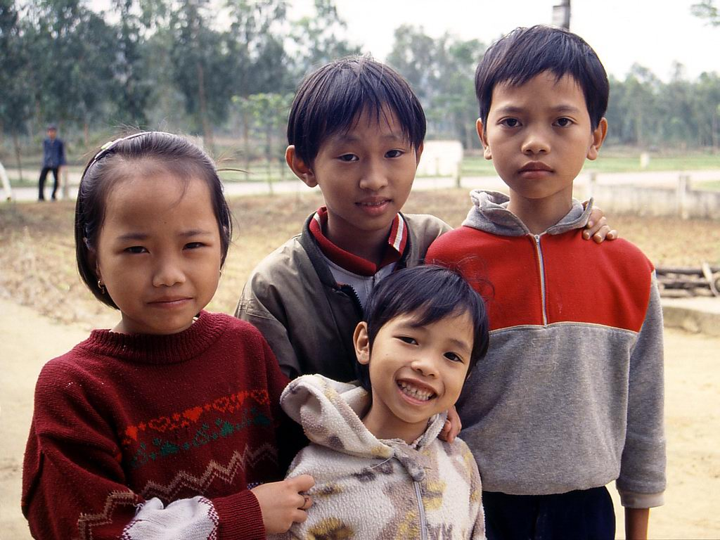 Children in Middle-Vietnam